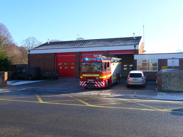 Warminster -Fire Station As I was passing a flurry of activity resulted in this shot of the engine on its way to a shout.